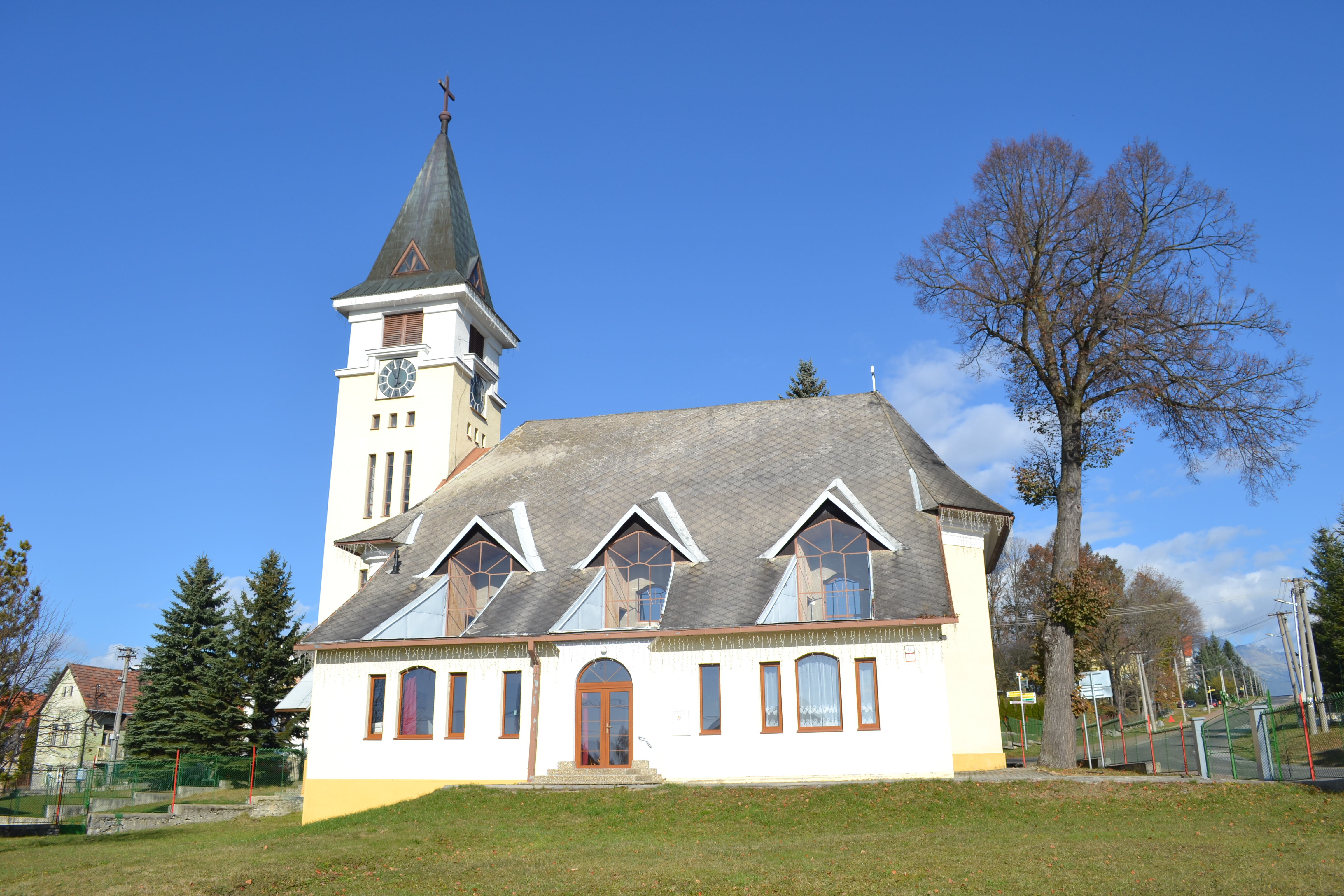 Evangelic church in ŠtrbaSlovenčina: Evanjelický kostol v Štrbe